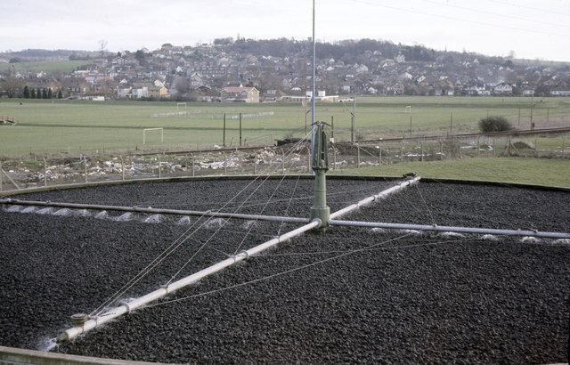 Benfleet Sewage Treatment Plant: Filter Bed The liquid effluent from the primary settling tanks 1450088 is sprayed onto a bed of coarse gravel. In the background is the main part of Benfleet. See also 1450208.